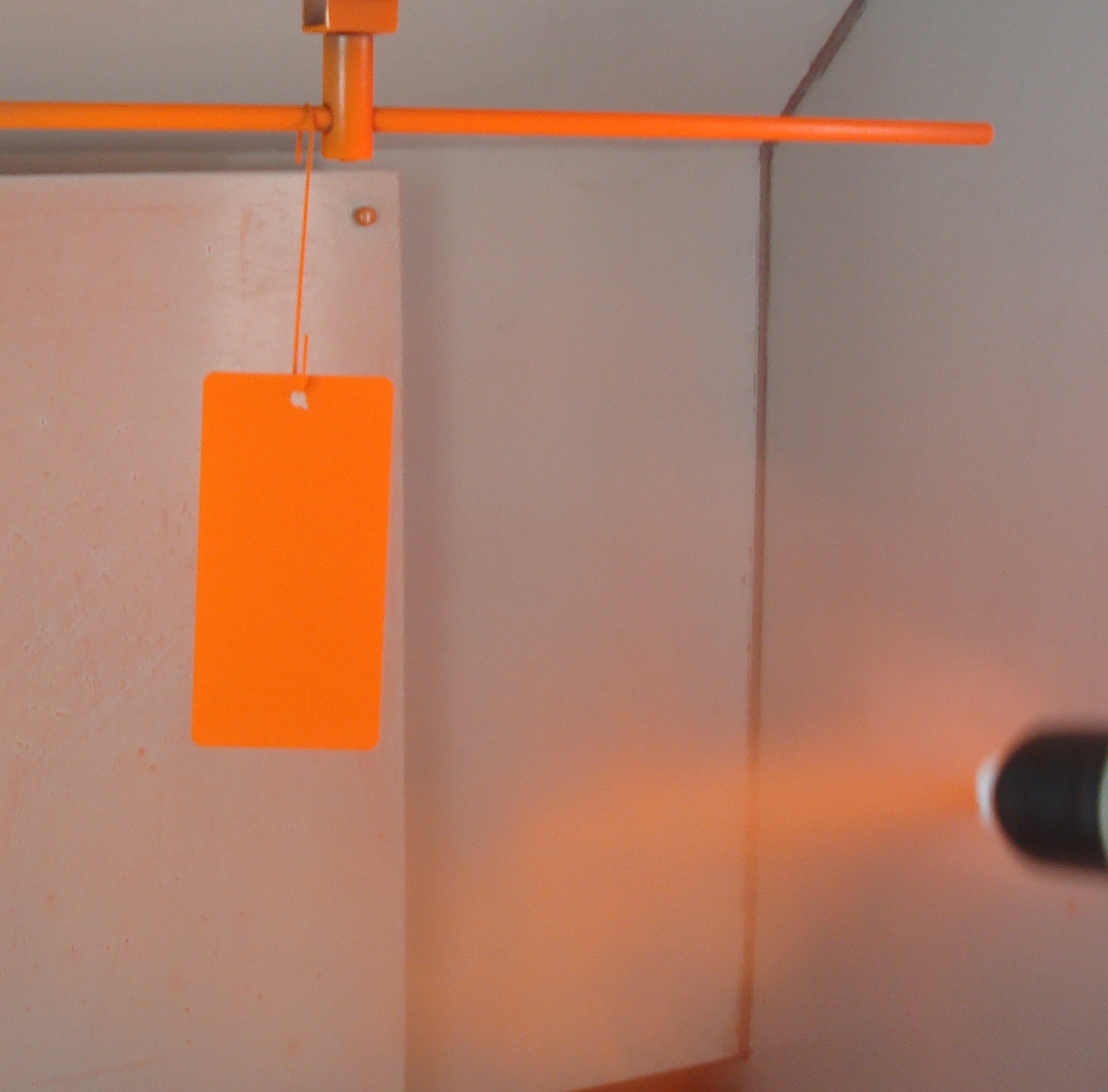 Application of powder coating (spray process)